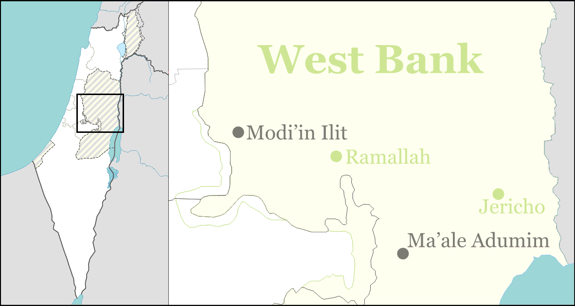 Location map for Israeli localities in the Binyamin Regional Council (Judea and Samaria Area) in the West Bank. Also for some other localities in the central WB, some in Megilot Regional Council.